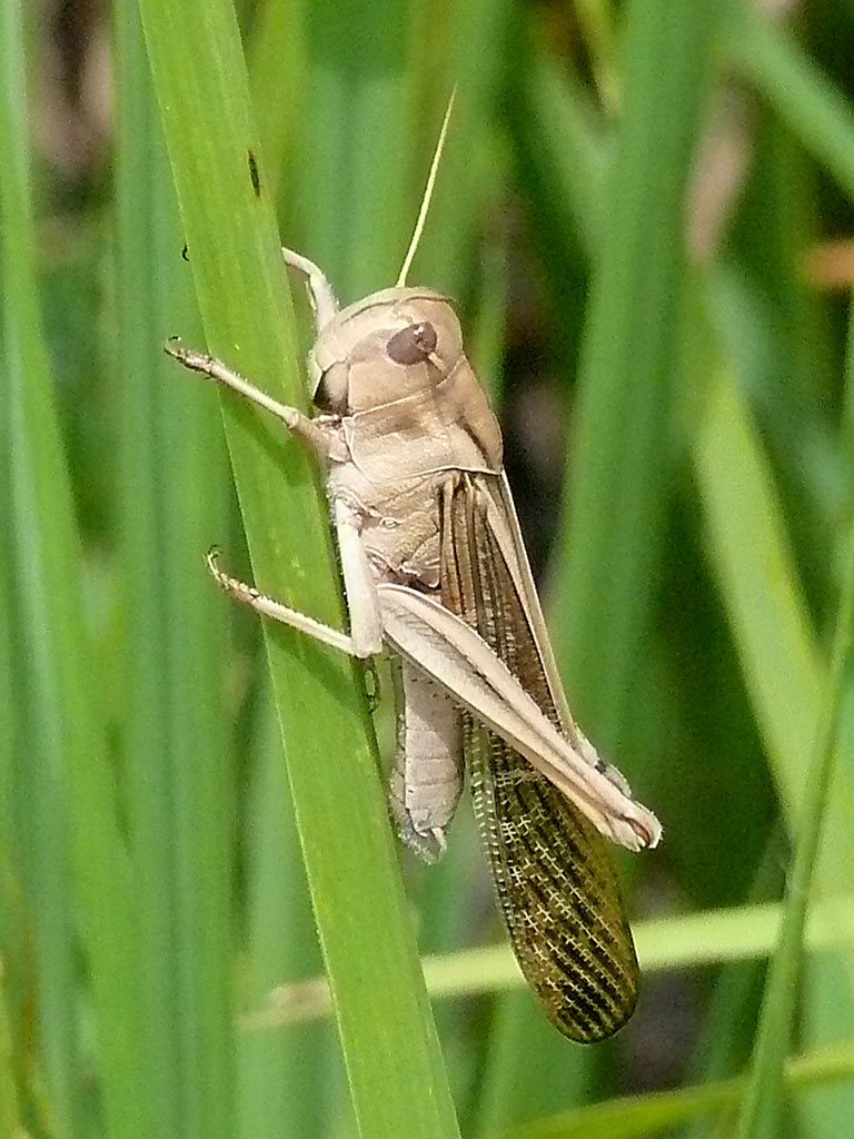 Male Locusta migratoria migratorioides photographed in Katavi National Park, Tanzania.